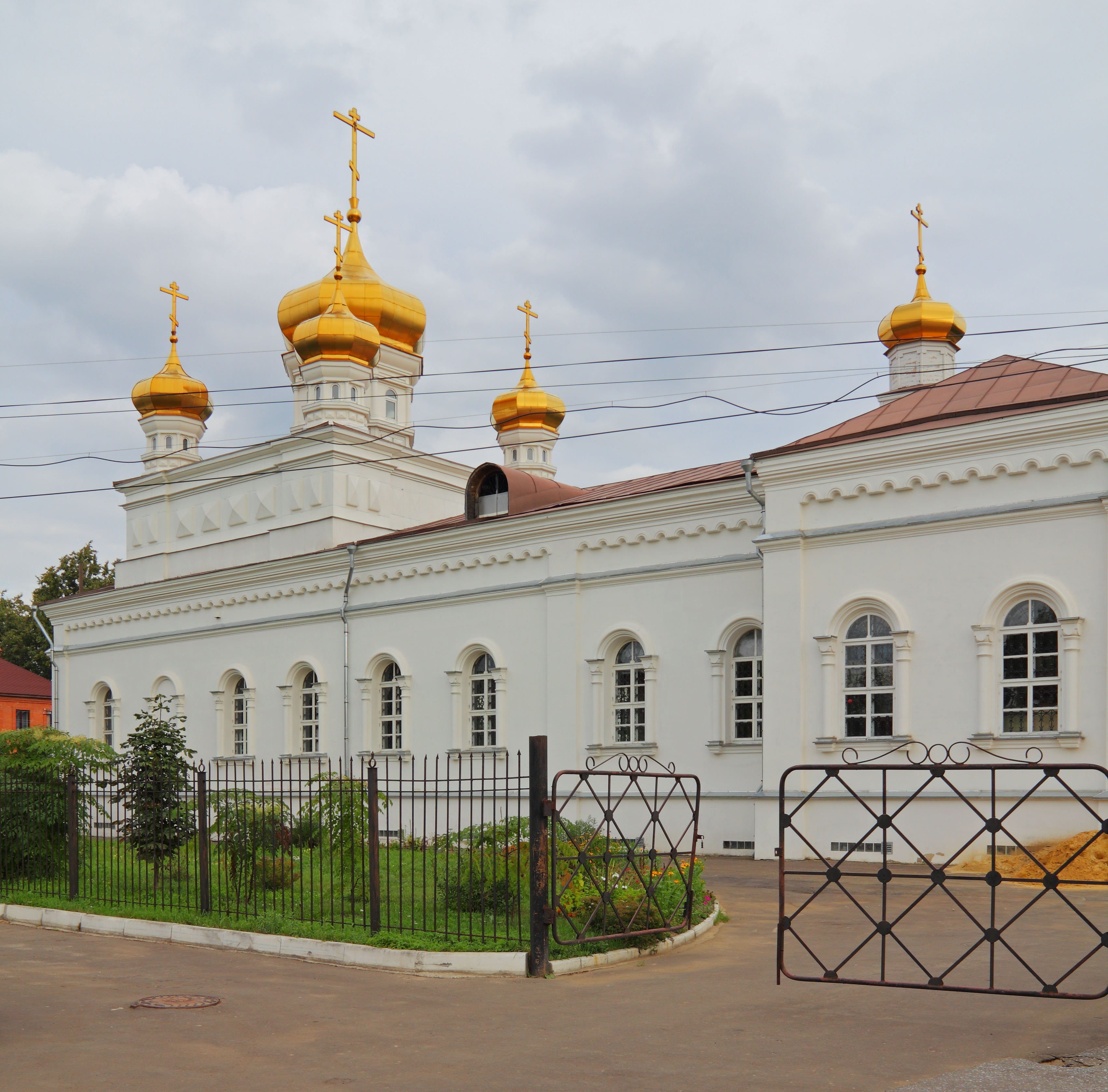 Yegorievsk, Moscow Oblast, Russia. Listed buildings in the old part of the town.